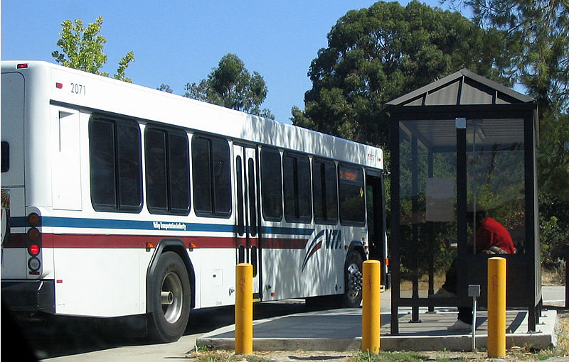 A Line 23 bus operated by the Santa Clara Valley Transportation Authority, arriving at the end of the line at Foothill College in Los Altos Hills.